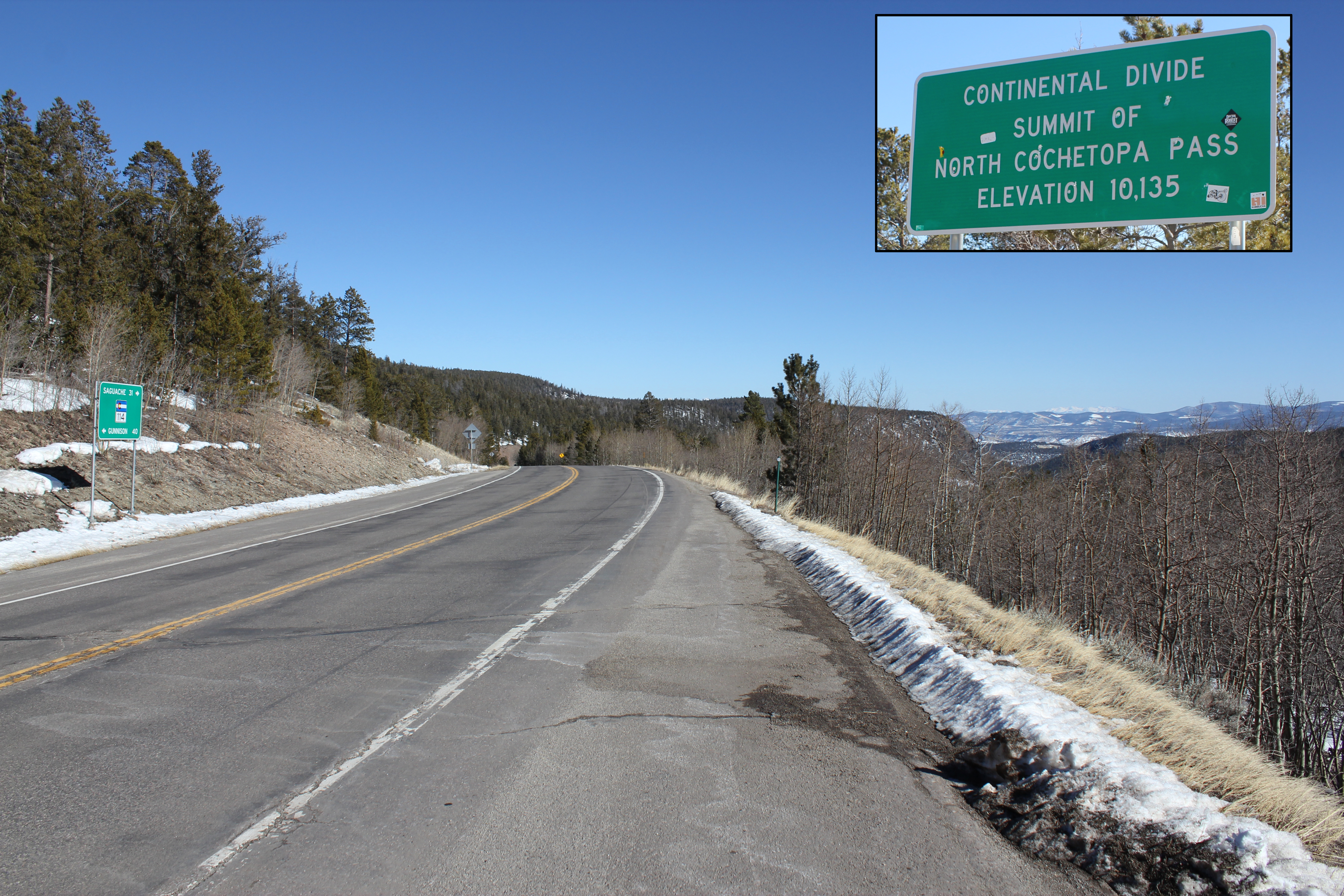 North Pass in Saguache County, Colorado. The road is Colorado State Highway 114. The inset shows one of the signs at the top of the pass, and it's located to the right of where the photographer is standing. Note that the pass is signed as North Cochetopa Pass, yet reference sources refer to it as North Pass.